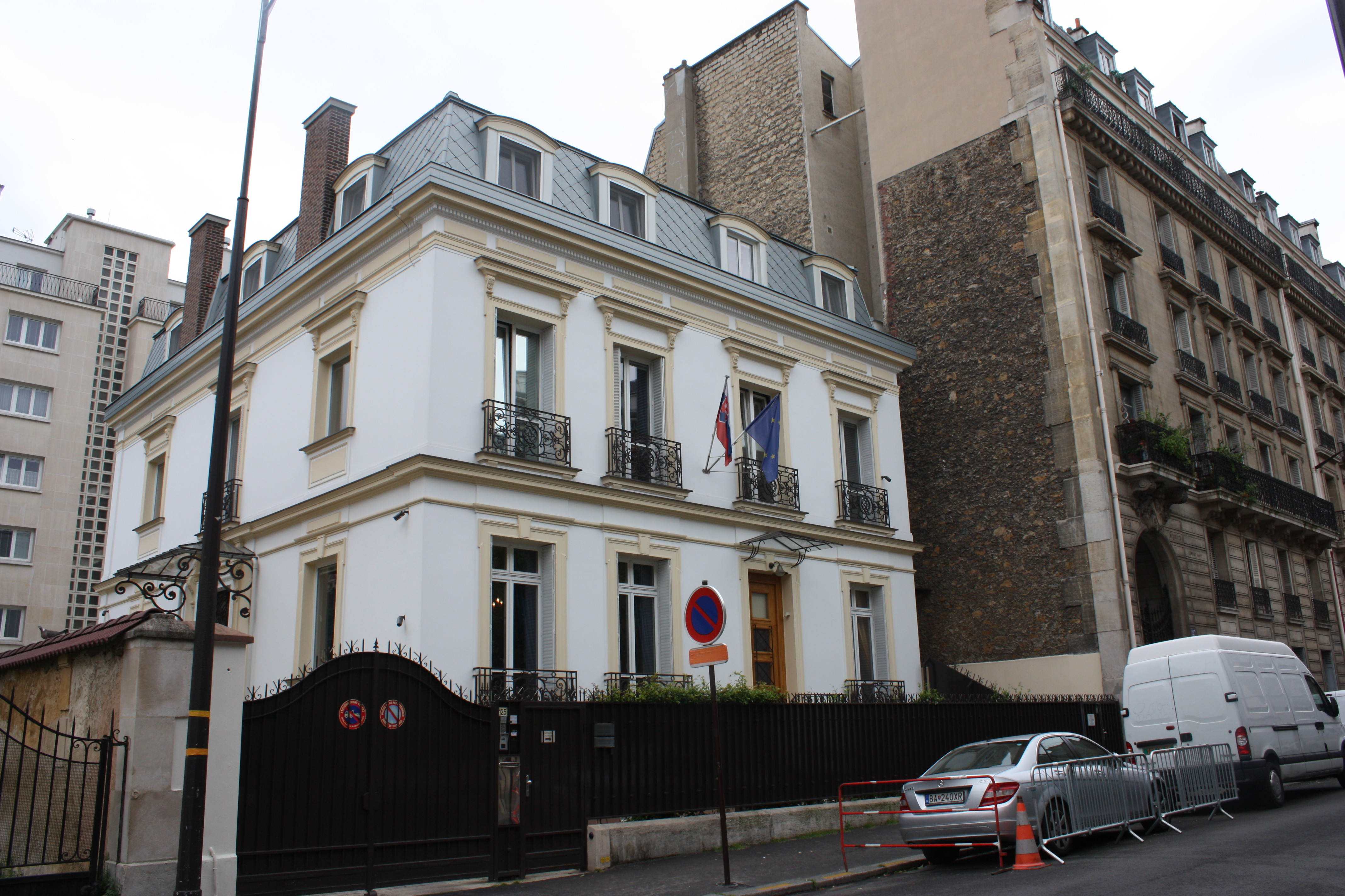 Slovak Embassy in Paris at 125 rue du Ranelagh